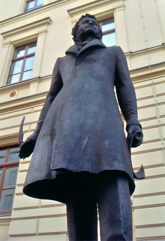 Pushkin monument by Anatoli A. Sknarin at Schloßstraße in Gera, Germany